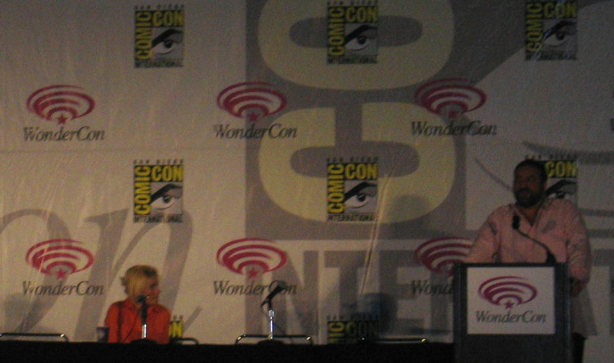 Elisha Cuthbert, along with Joel Silver discussing their latest movie, House of Wax (2005)